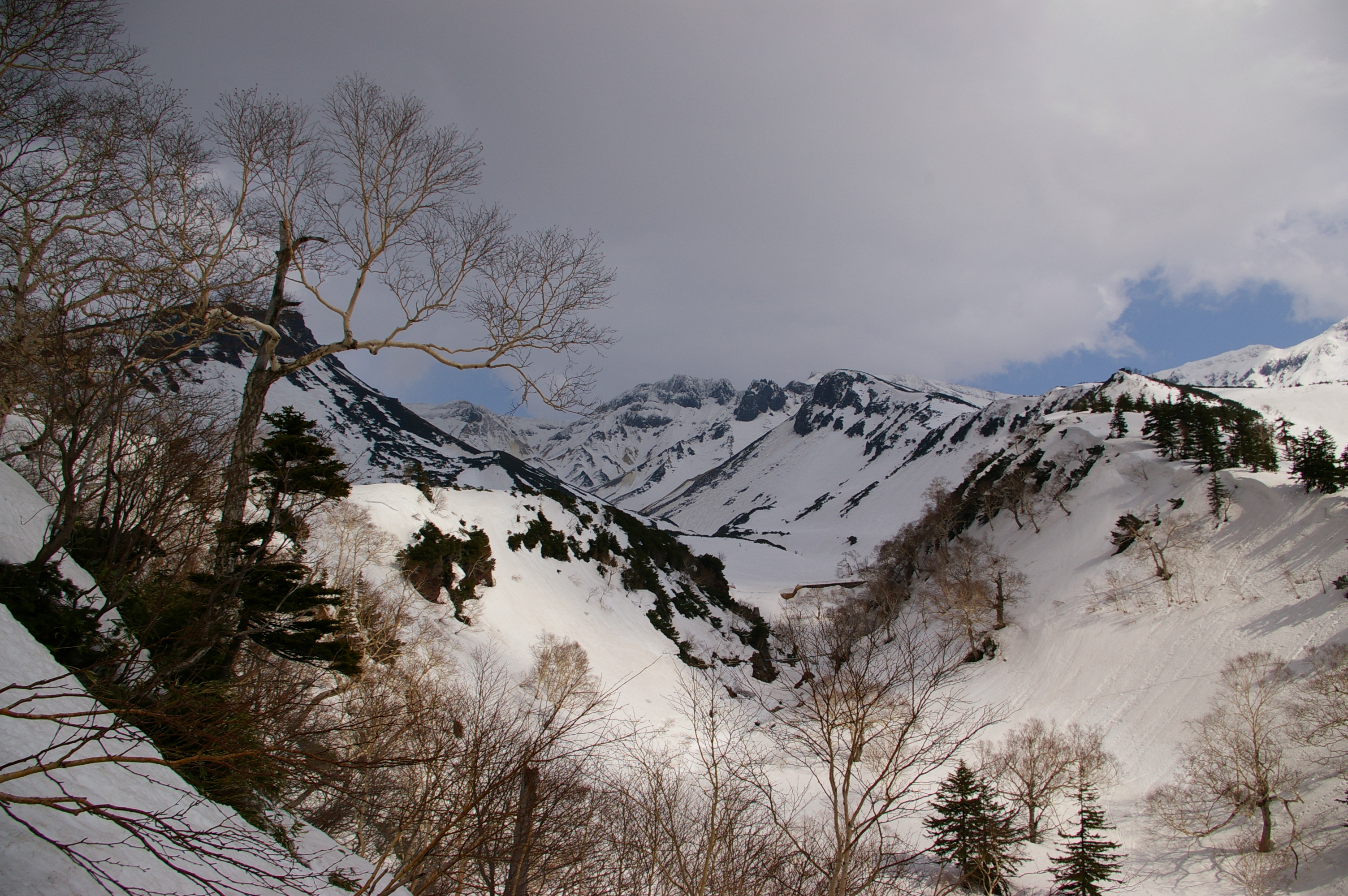 Mount Kami-Horokamettoku seen from the WNW in Hokaido. Taken at Tokachidake hot spring.